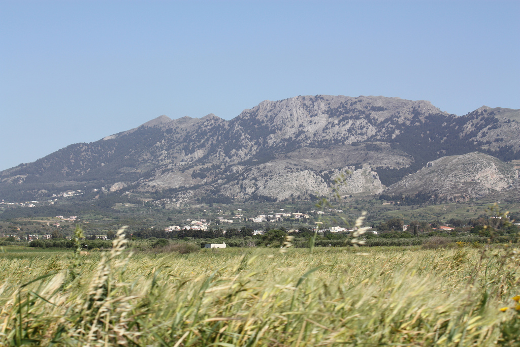 Mountains on the Greek island of Kos